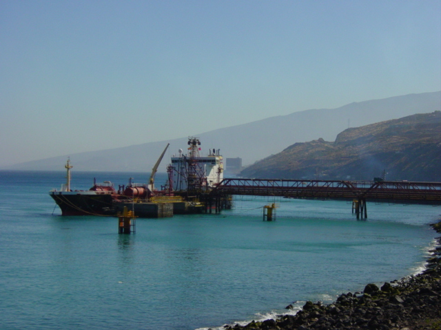 Oil tanker unloading at La Hondura harbour (oil refinerie), Port of Santa Cruz de Tenerife (Tenerife). Canary Islands, Spain.